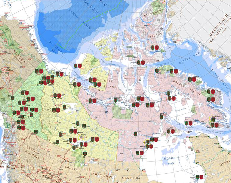 1 CRPG has 60 Canadian Ranger and 41 Junior Canadian Ranger Patrols across the North and in Atlin, BC.